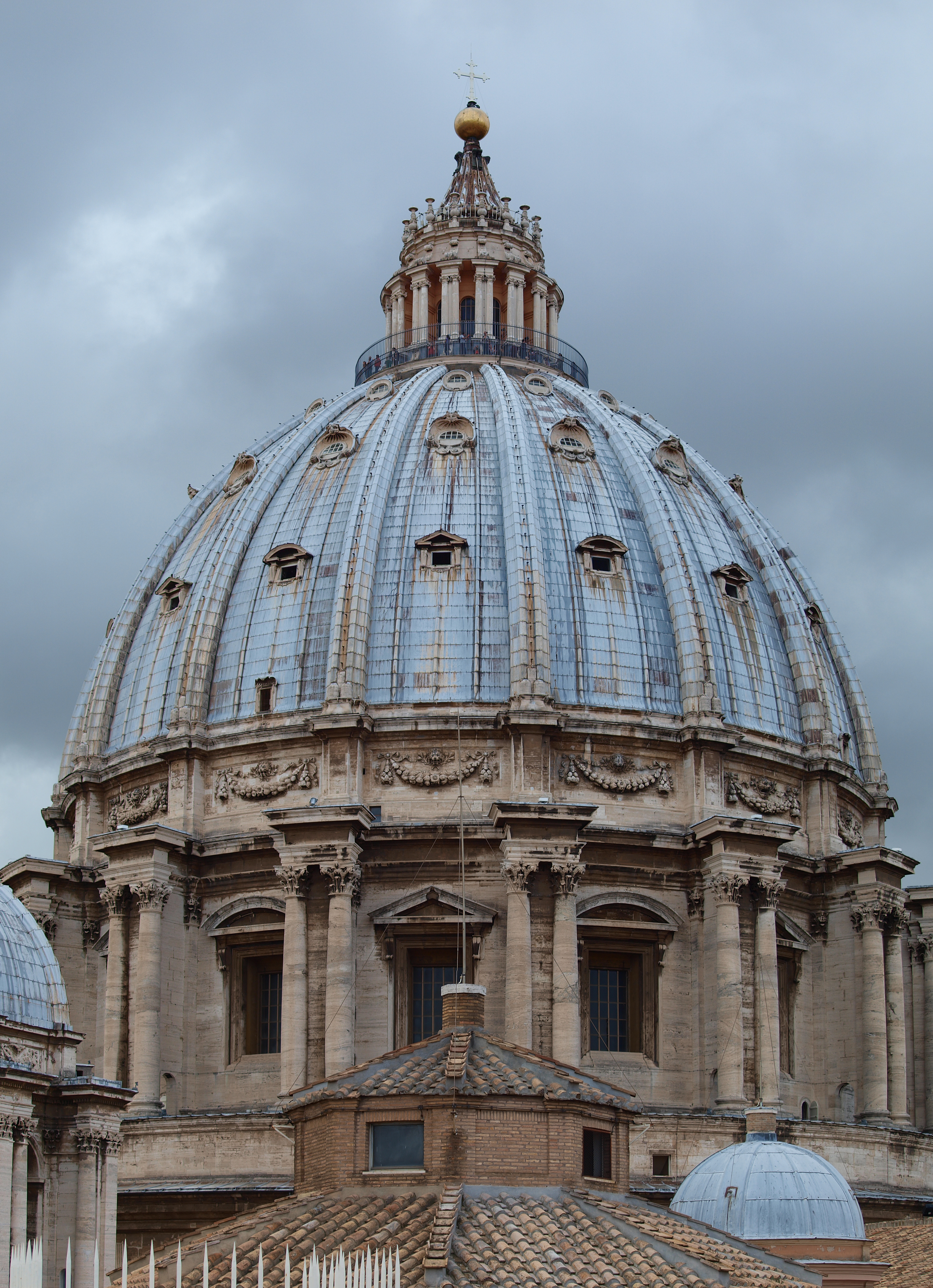 Dome of Saint Peter's Basilica (exterior)